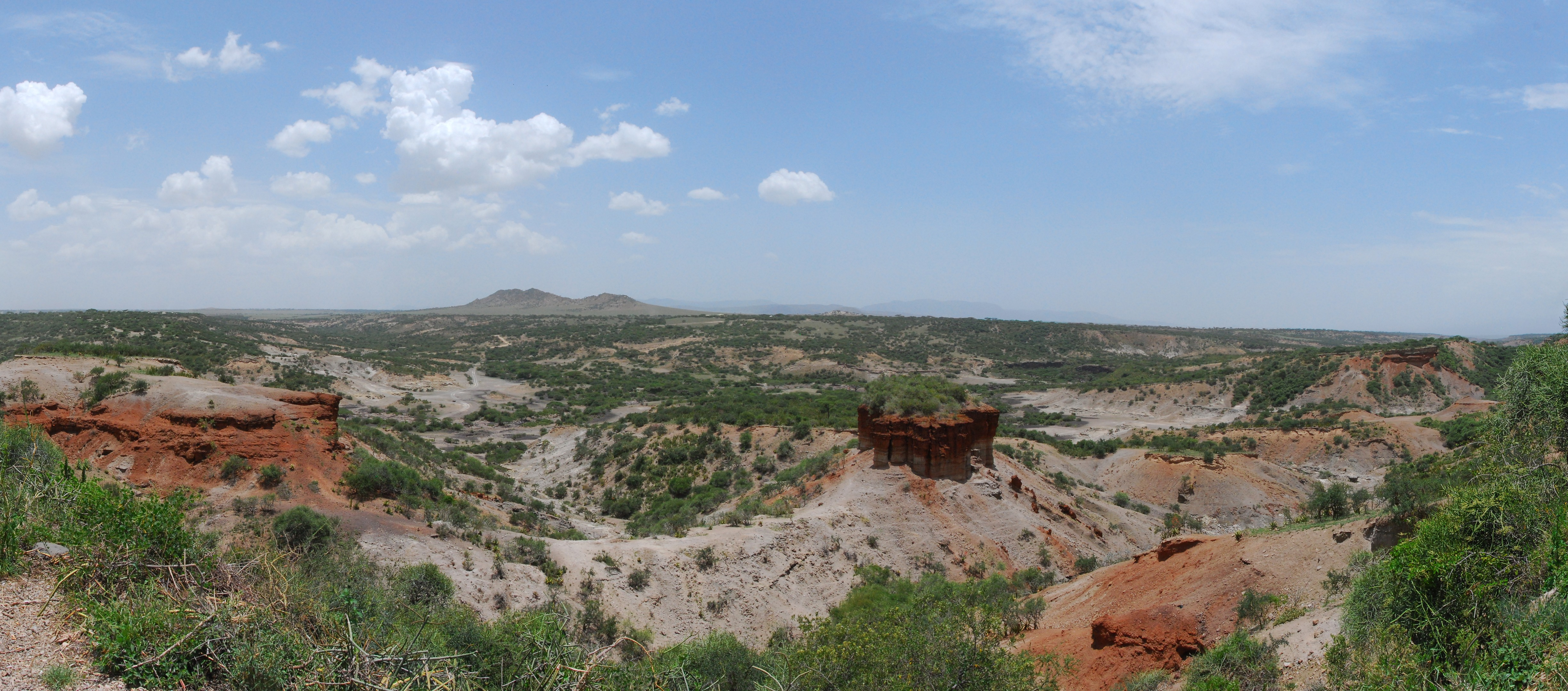 Olduvai Gorge in Tanzania - archaeological site also known as "The Cradle of Mankind”